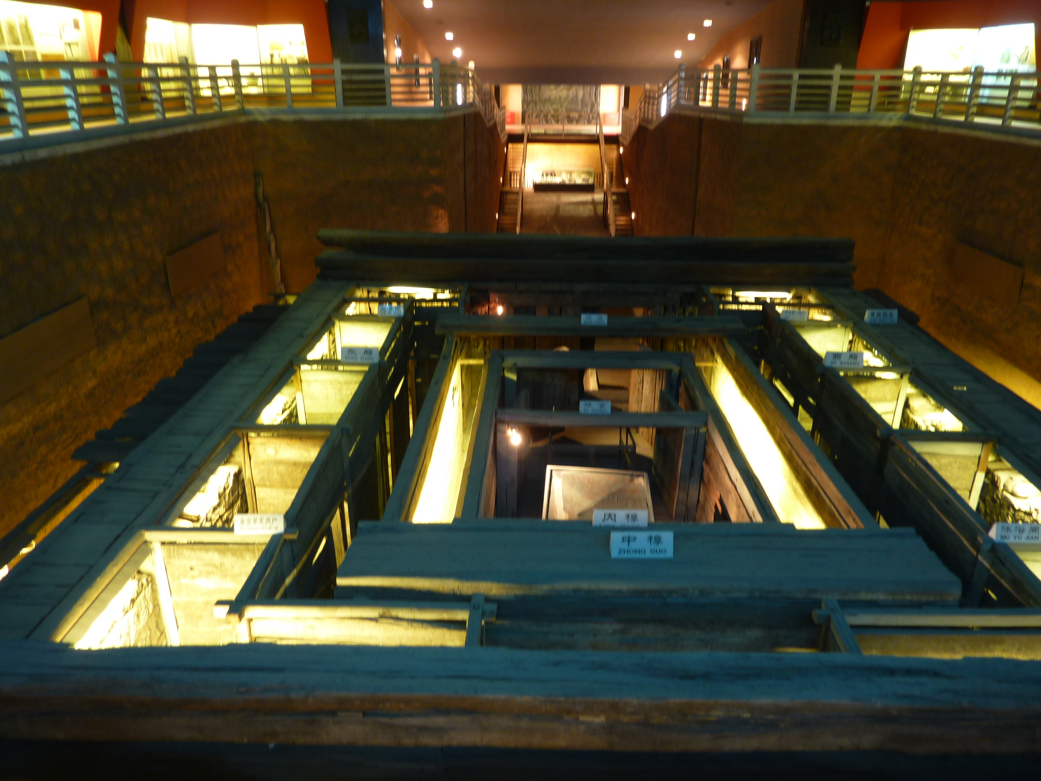 Reconstructed tomb of Liu Xu, the Han Guangling King, originally from Shenju Hill in Tianshan Town, in the main hall of the eponymous museum Yangzhou.